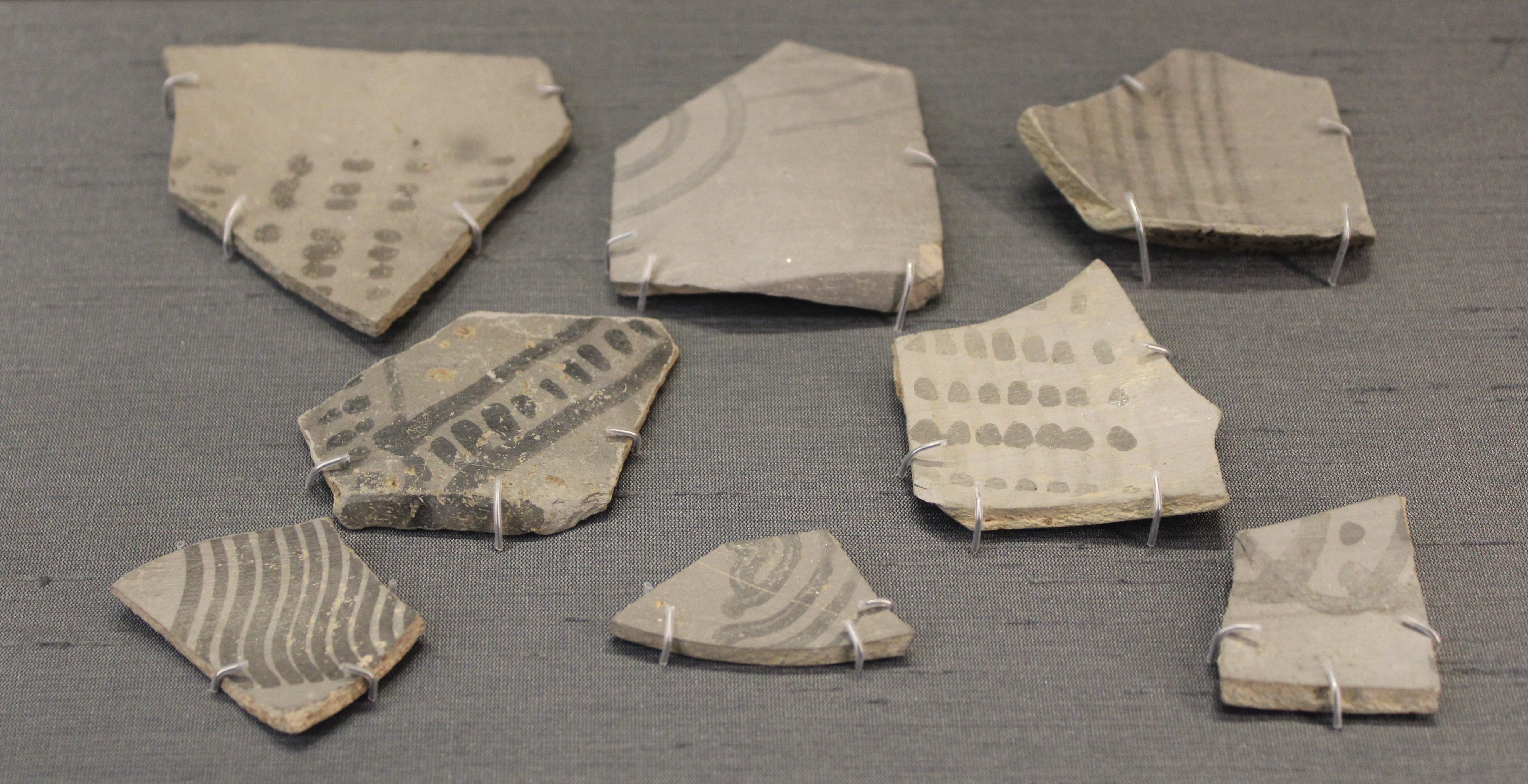 Fragments of Painted Grey Ware (PGW), about 1000 BC: black painted geometric decoration on light grey pottery. From Hashtinapura and Radhakund, Uttar Pradesh, and Panipat and Tilpat, Haryana. 1986.1018.2000-2007. British Museum.